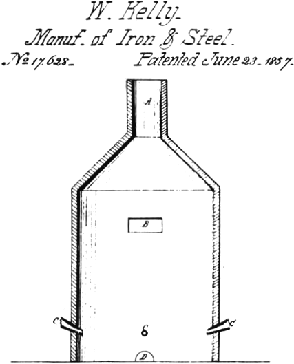 Drawing in William Kelly (1811 - 1888) converter patent, in 1857.